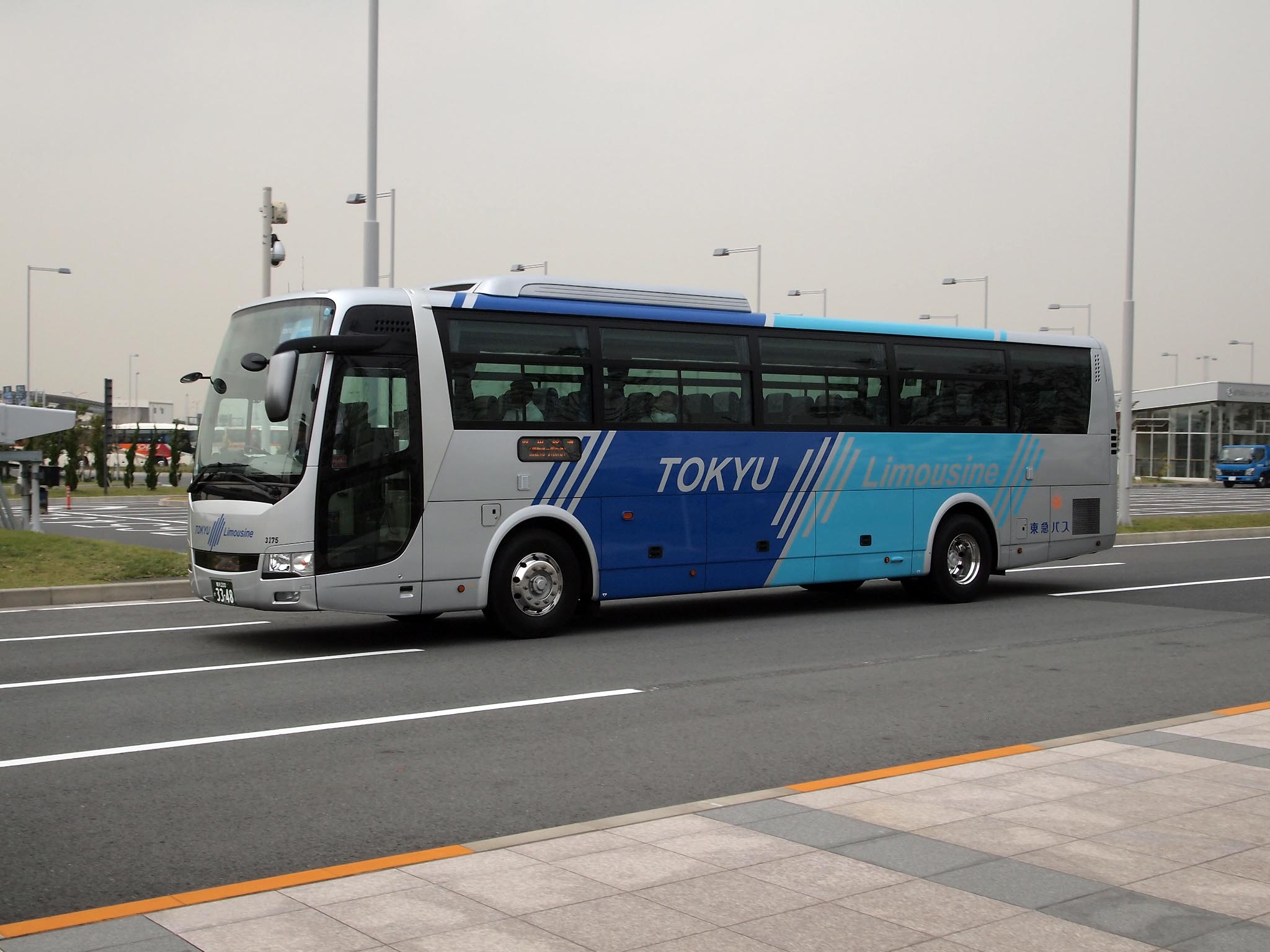 Fleet of Tokyu Bus, painted "Milky Way" version for 20th anniversary. Model: Mitsubishi Fuso Aero Ace LKG-MS96VP License plate: KNY200KA3348 Place: Tokyo International Airport